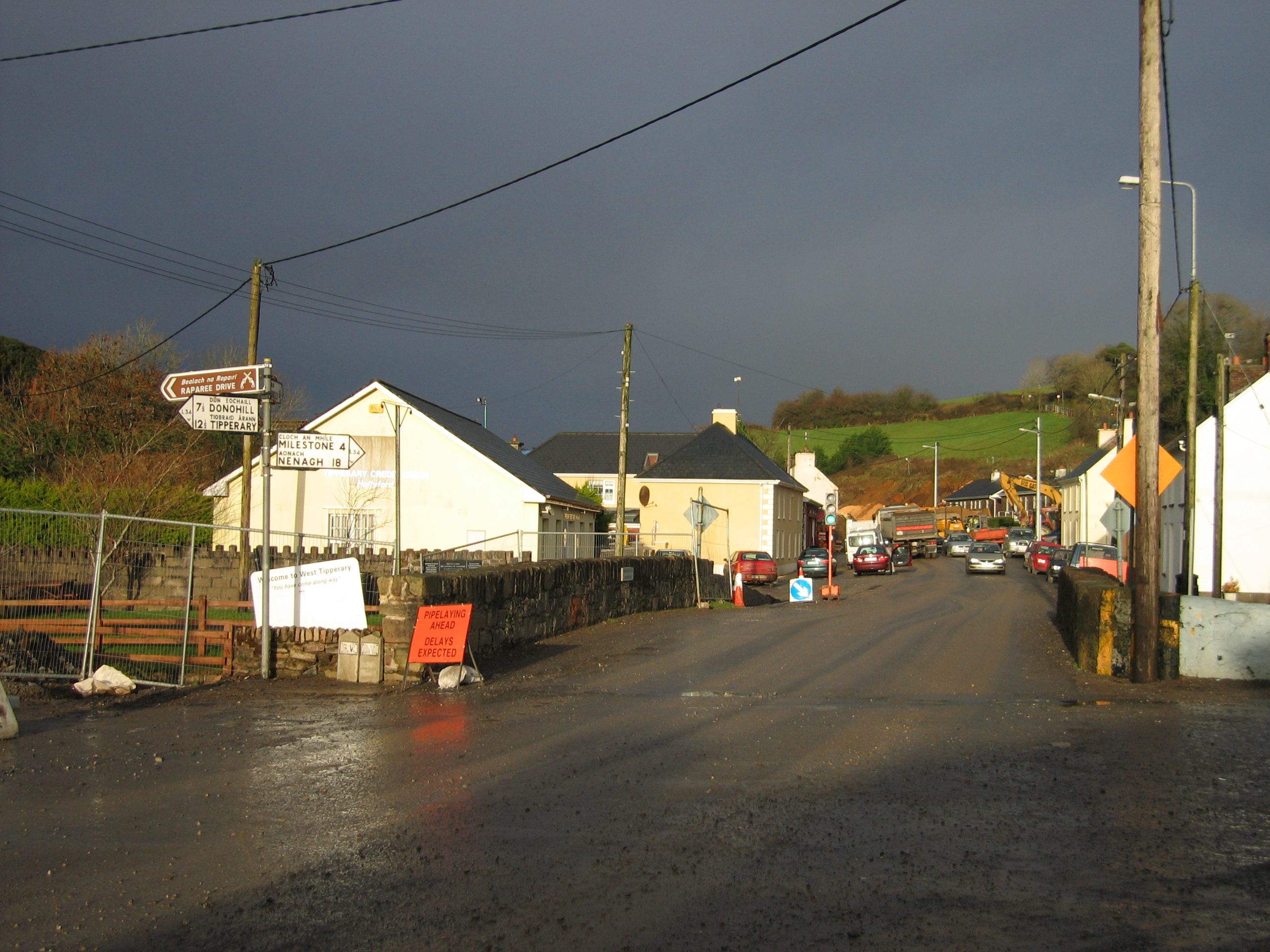 Hollyford village, County Tipperary December 2006, major pipe-laying in progress. (Sarah777 01:31, 26 December 2006 (UTC))